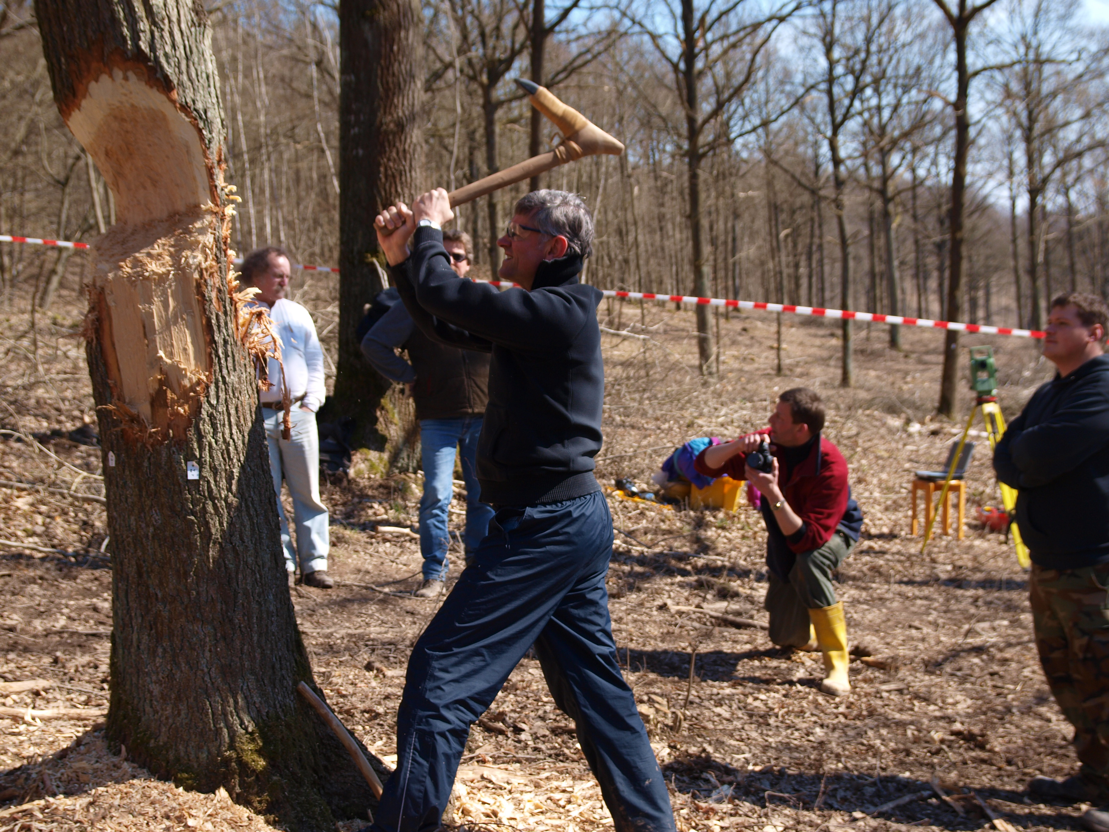 Experimental archaeology at Ergersheim Experiments 2011. Experimental tree felling with reconstructed Adzes of archaeological finds of the Linear Pottery culture of approx. 5600 to 5000 BC. The tree has been equipped with reference marks and regularly been 3-D scanned with a Laser Total station. The experiment has been documented by video, high resolution photography and stereo photography as well as written protocols for the following scientific analysis. The target is the analysis of stress marks on the adze blades and ghost lines on the tree stump and the timber in comparison with marks on archaeological finds.